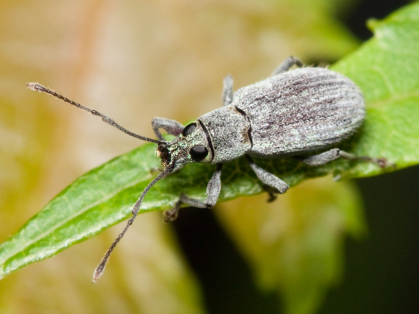 Asiatic Oak Weevil (Cyrtepistomus castaneus) found in Montgomery Bell State Park in Dickson County, Tennessee. Body length approximately 5.2 mm.